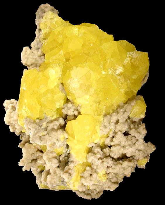 Aragonite, Sulphur Locality: Agrigento (Girgenti), Agrigento Province, Sicily, Italy (Locality at ) Size: cabinet, 17.8 x 13.7 x 6.0 cm Sulfur on Aragonite A very colorful and showy plate of bright lemon-yellow sulfur crystals, on matrix! Though there is some damage here and there, it is minor in context and does not detract much at all. The piece looks good from EITHER side, depending on personal tastes! For some reason his number on the specimen is blacked over, on the actual piece, so we had to guess at the real catalogue number. We think this is because it was erroneously labeled as #105 "Nicholsonite on Aragonite from Tsumeb" at one time (this number survives under the second coat of black paint on which he wrote his numbers on many pieces) and was perhaps recatalogued under another number that came off in the cleaning. Regardless, it is prominently seen in the photo of the lefthand case, in the middle of the second shelf up. You can see which side Carnegie liked!